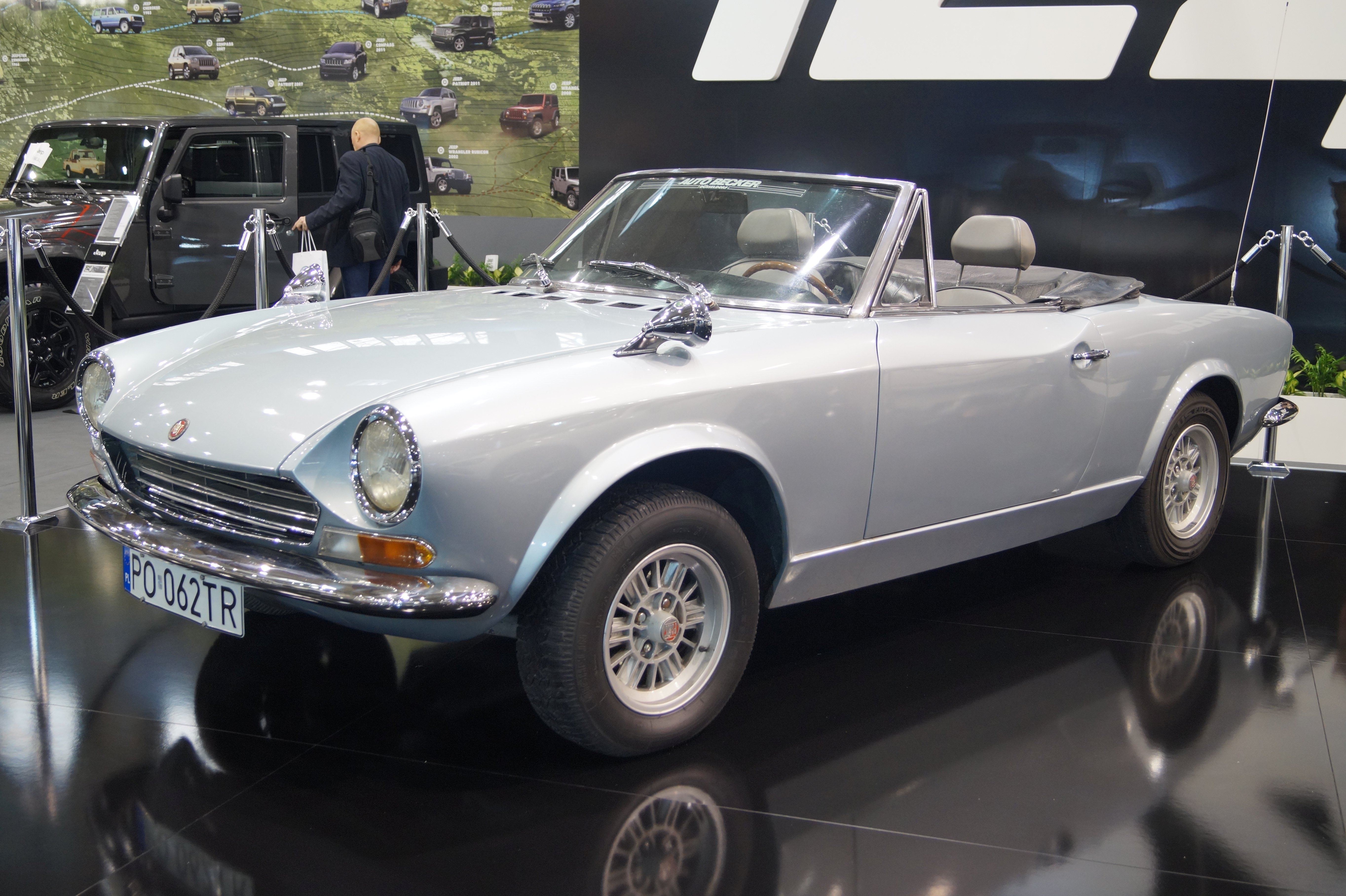 The making of this document was supported by Wikimedia Polska Association, within Wikigrant no. WG 2016-10. Przód Fiata 124 Spider na Motor Show Poznań 2016